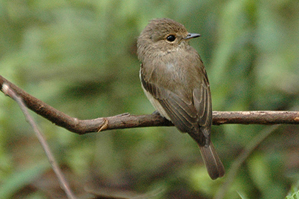 Uganda African Dusky Flycatcher Muscicapa adusta Ruhija, SW. Uganda